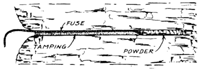 Bore-hole in rock, charged with blasting powder, tamping material, and fuse